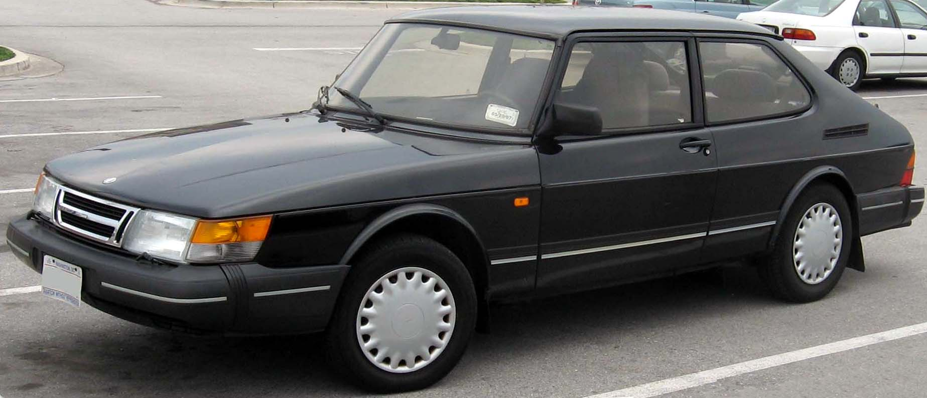 Saab 900 photographed in USA.